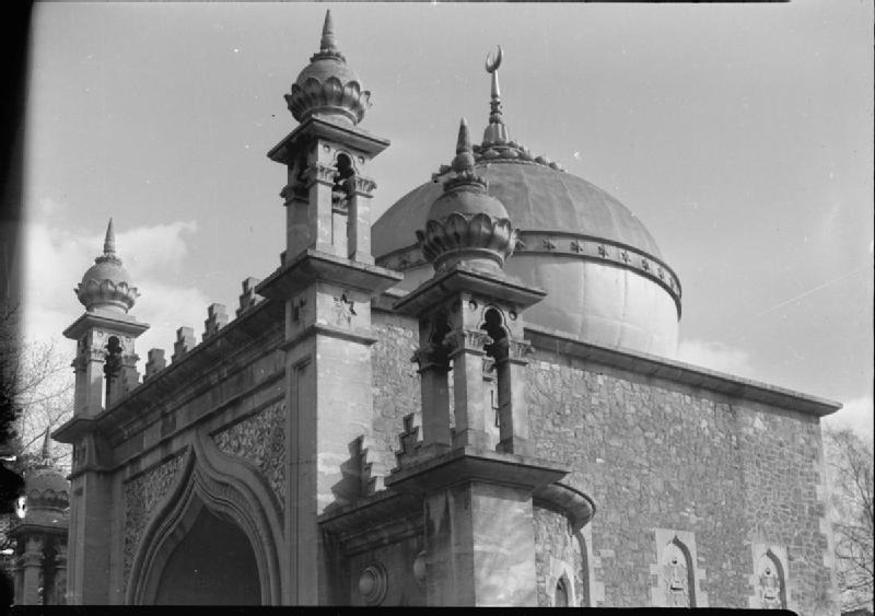 Mosques in Great Britain- Islamic Architecture in the UK, c 1945 The domes of the Shah Jehan Mosque in Woking, Surrey, stand out against a bright Spring sky. According to the original caption, this was the first Mosque to be built in Britain. It was built in 1889 by Dr Henry Leitner, with money from Her Highness Begum Shah Jehan, the late grandmother of the wartime Ruler of Bhopal. The architecture of the Mosque is 'Indo-Saracenic' in style and the interior is 23 feet square.